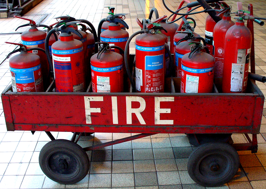 Eighteen fire extinguishers loaded onto a trolley